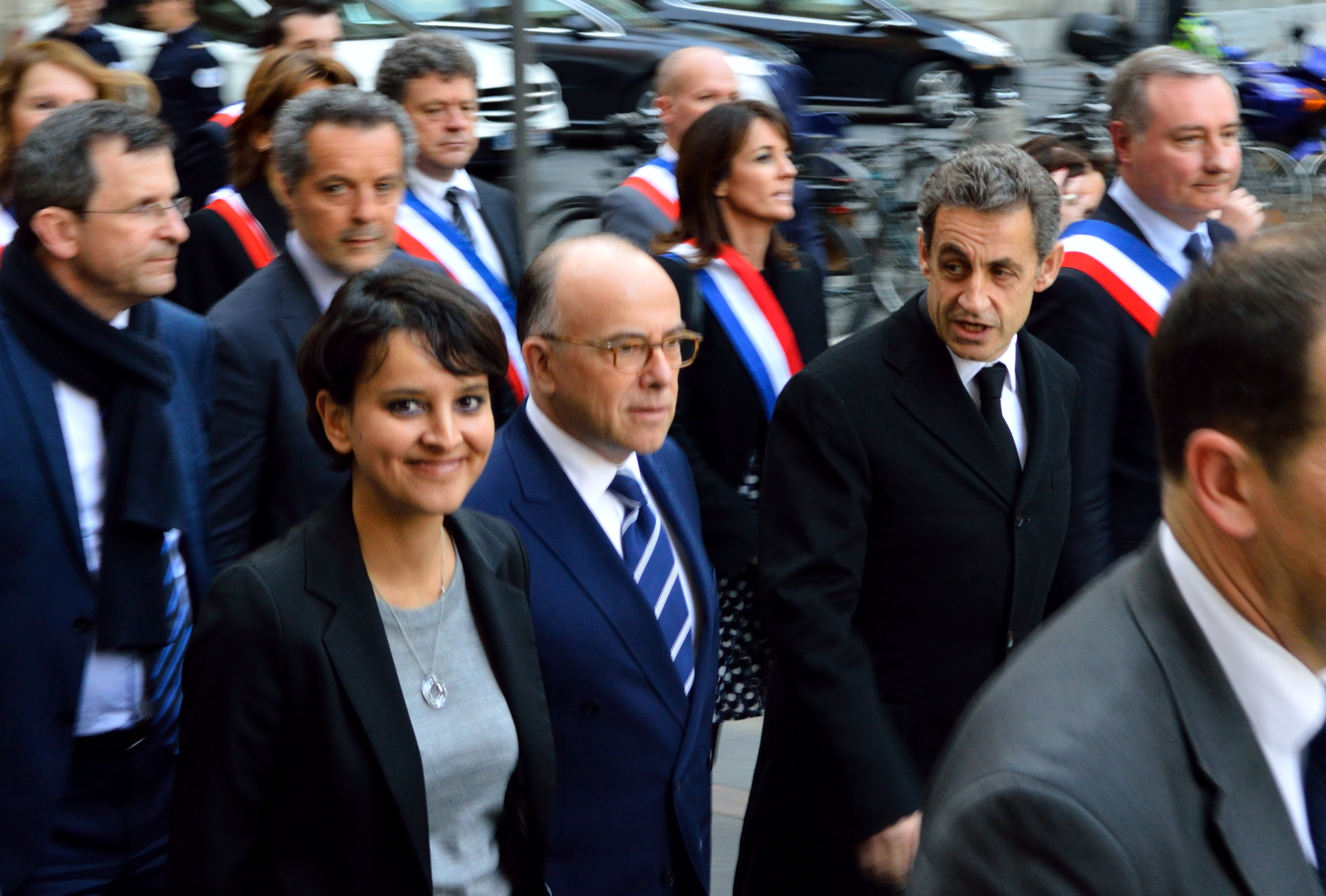 Minister of Education Najat Vallaud-Belkacem, minister of the Interior Bernard Cazeneuve and former President Nicolas Sarkozy, going to the commemoration of the Toulouse and Montauban shootings.